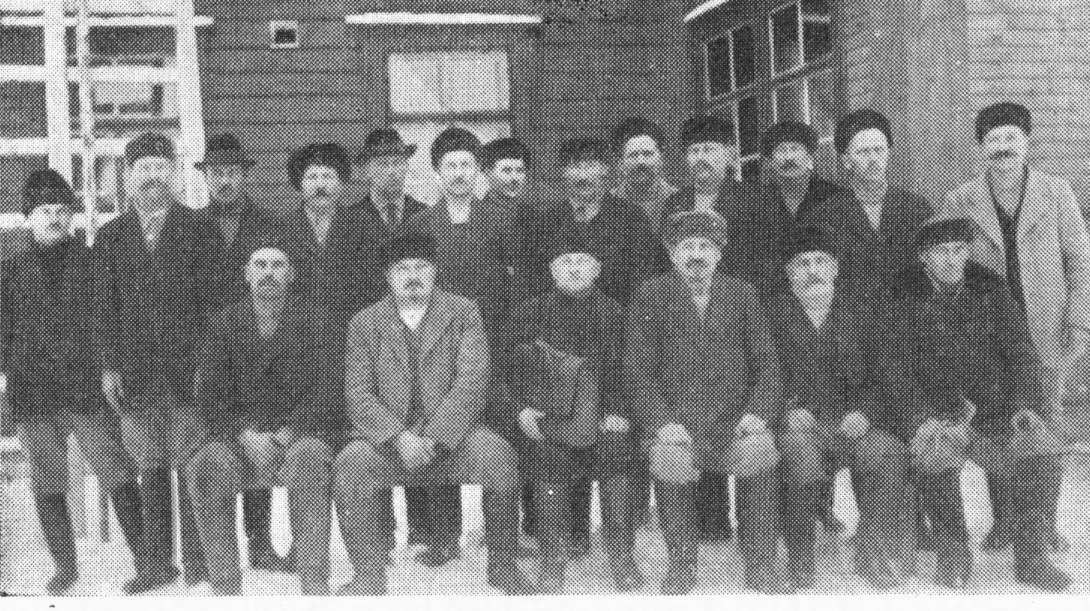 Lumivaara municipal council